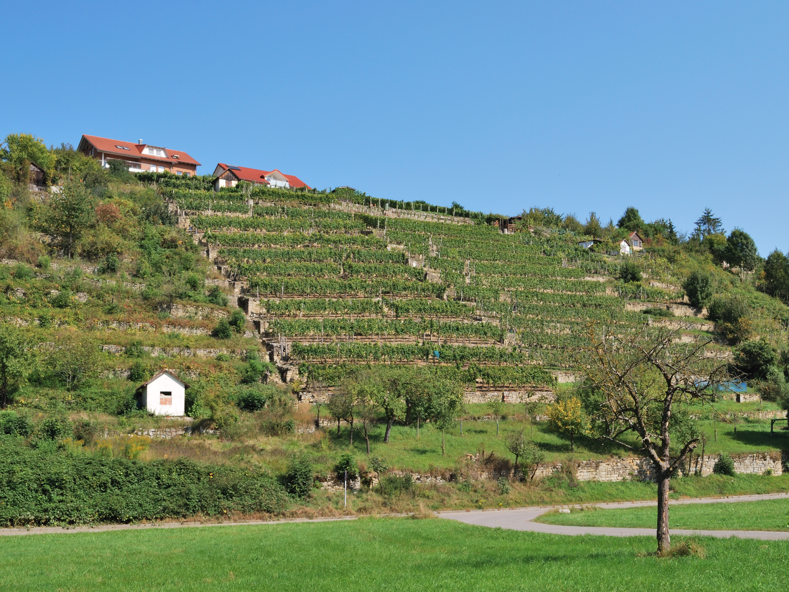 Steep slope of the Glems valey in Markgröningen in Southern Germany.